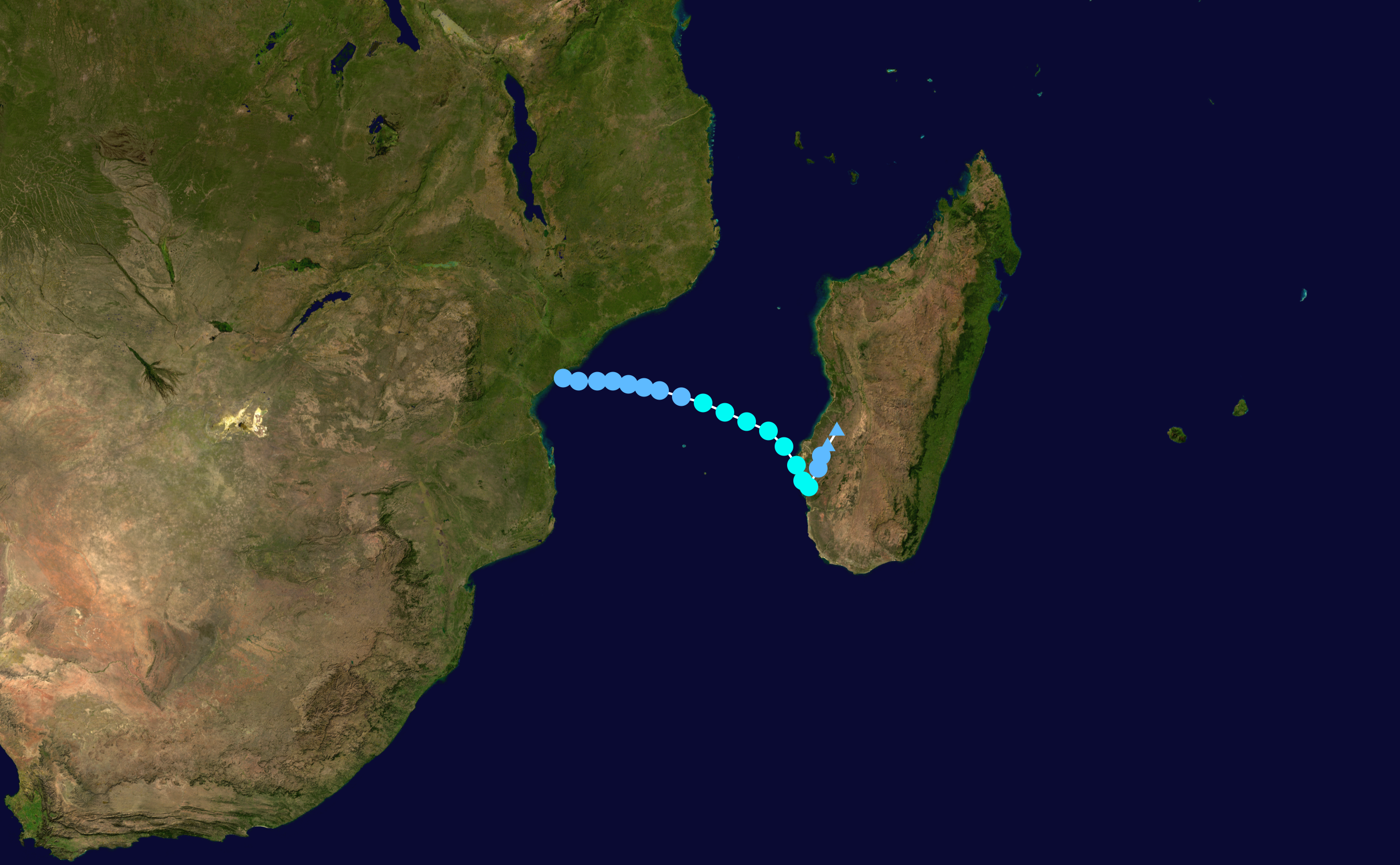 Cyclone Cyprien (2001) track. Uses the color scheme from the Saffir-Simpson Hurricane Scale.